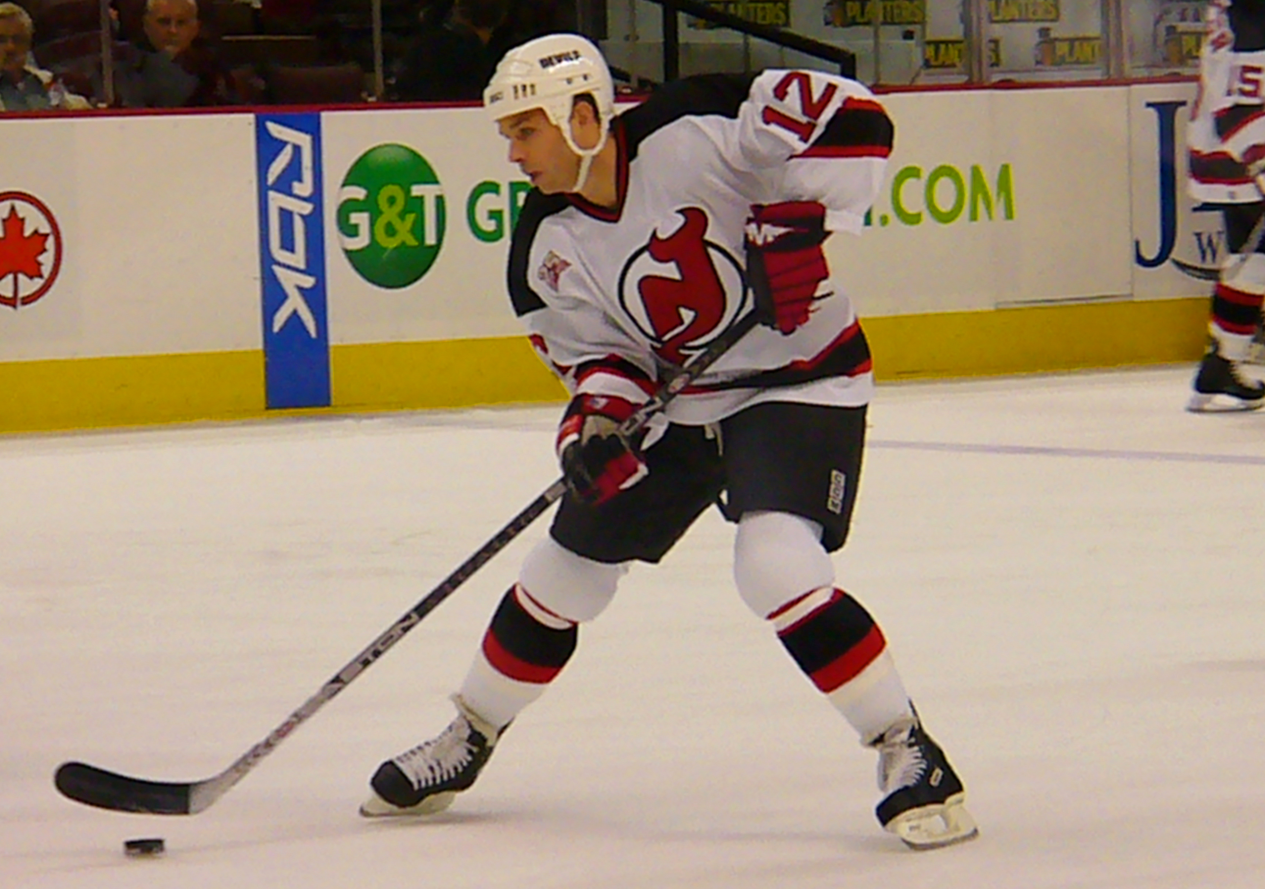 Jim Dowd, ice hockey player of the New Jersey Devils, January 6, 2007